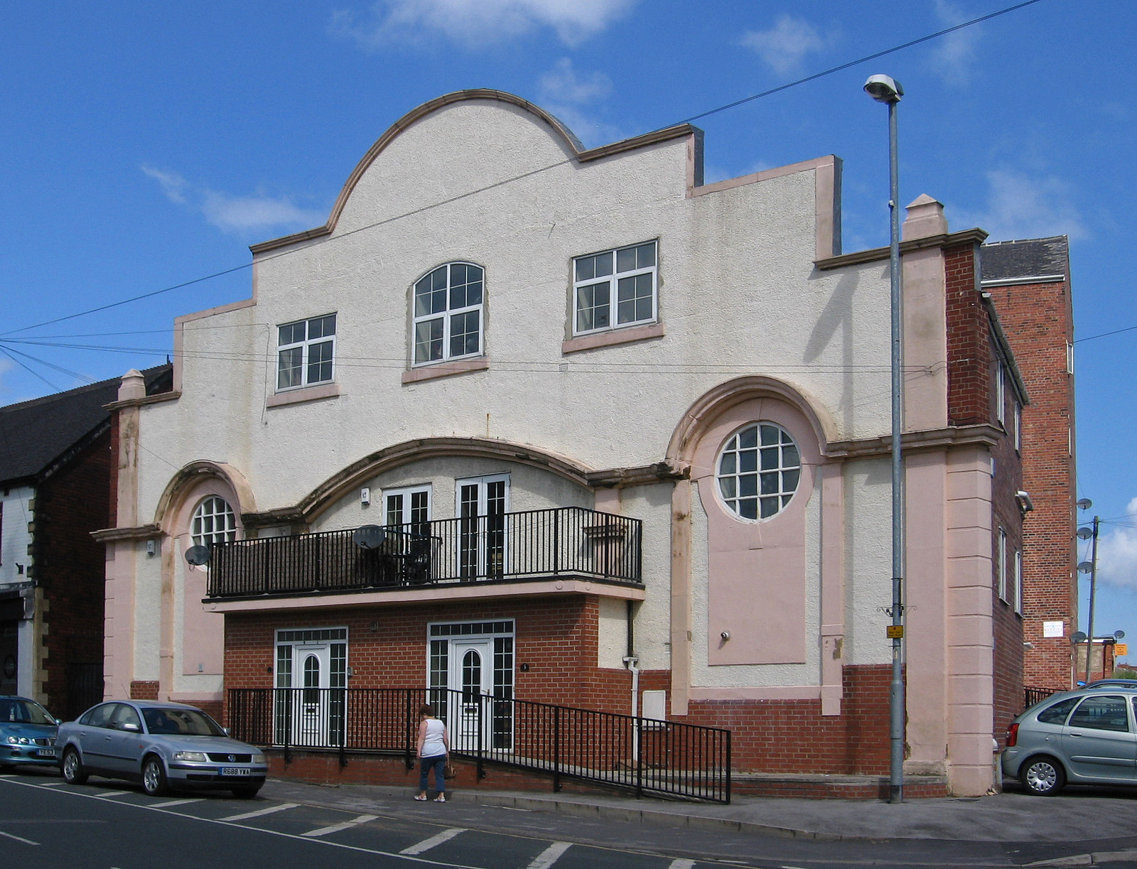 The former Empire Theatre, Moorthorpe, West Yorkshire.